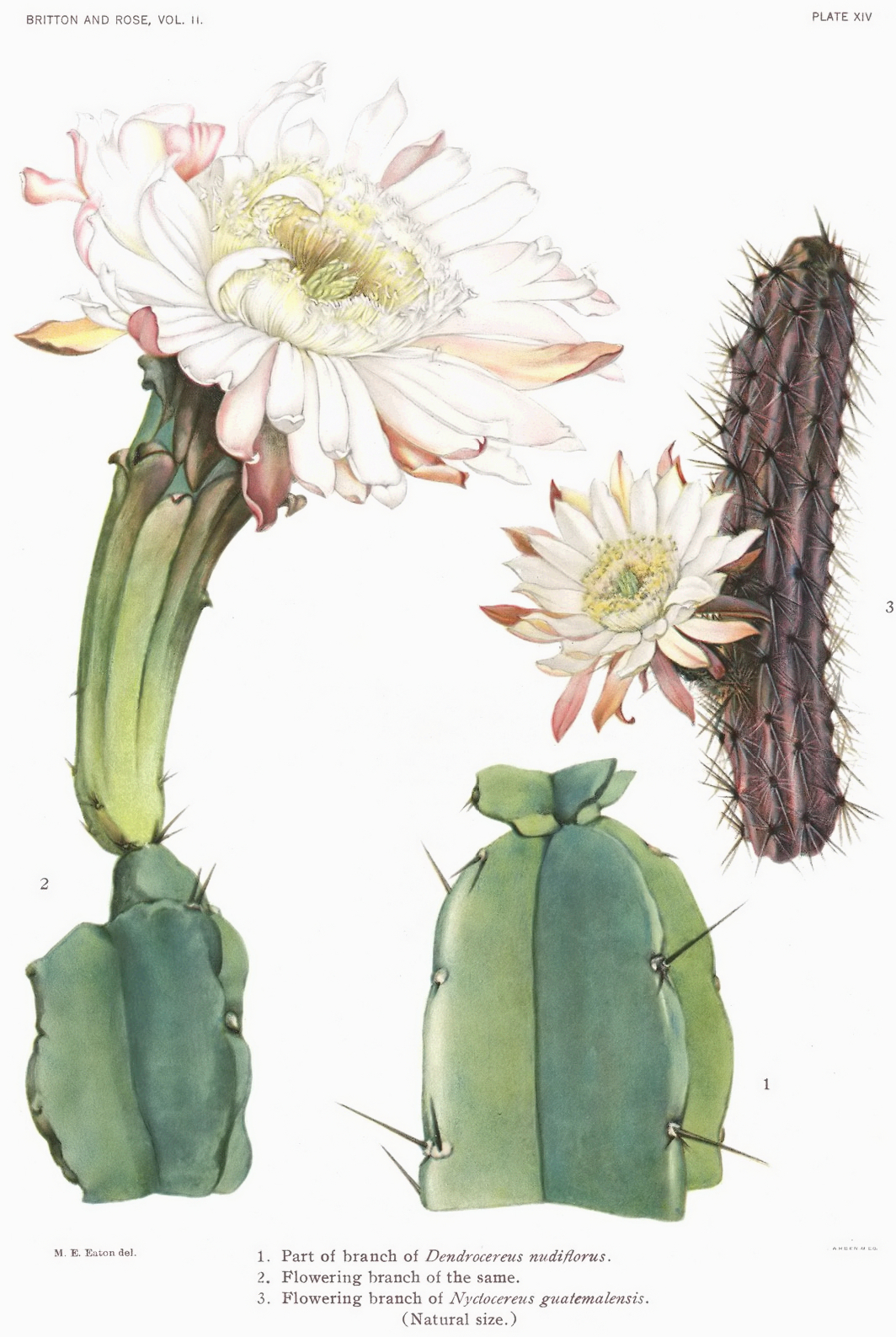 Dendrocereus nudiflorus Peniocereus hirschtianus